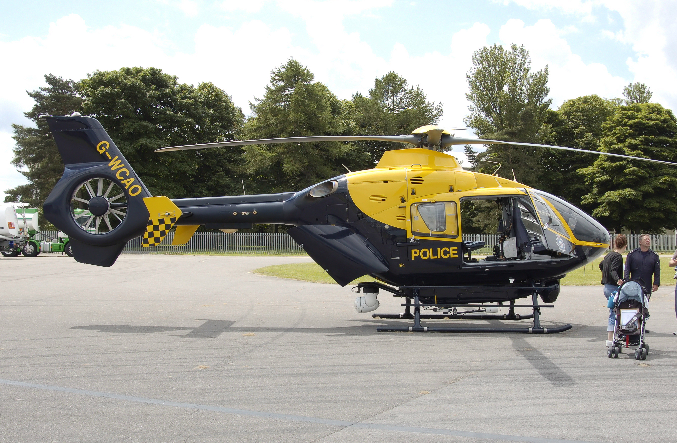 Eurocopter EC 135 T2 helicopter (G-WCAO) of the Western Counties Air Operations Unit (serving the Avon and Somerset Constabulary, and Gloucestershire Constabulary) at Kemble Air Day 2008, Kemble Airport, Gloucestershire, England.